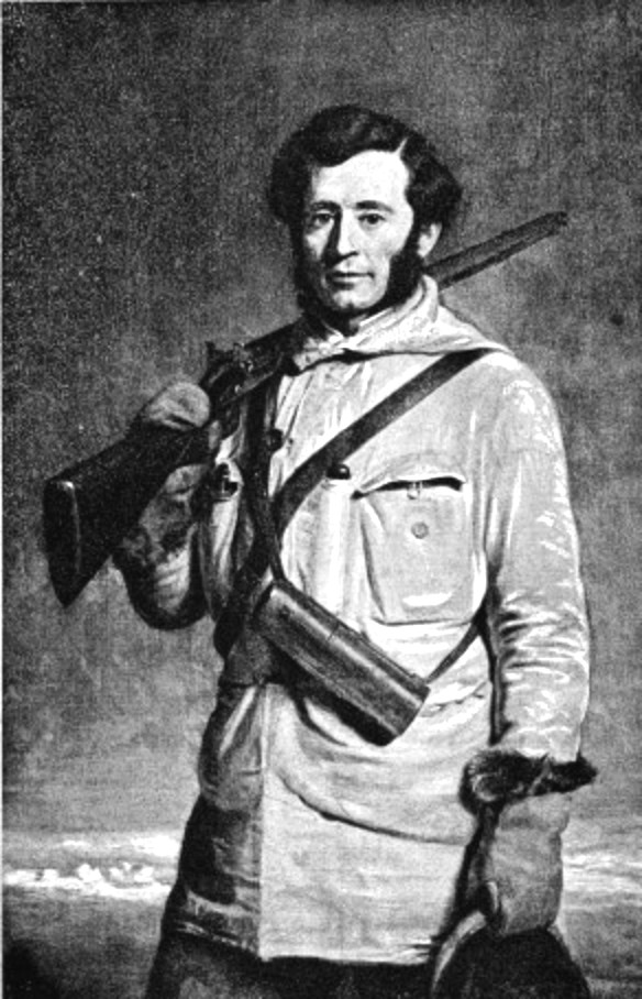 Capt. Francis Leopold McClintock